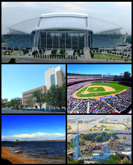 All photos are in the public domain.